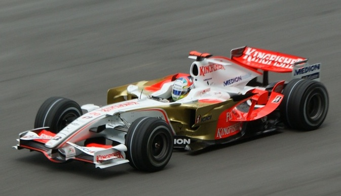 Adrian Sutil Force India 2008 Malaysia